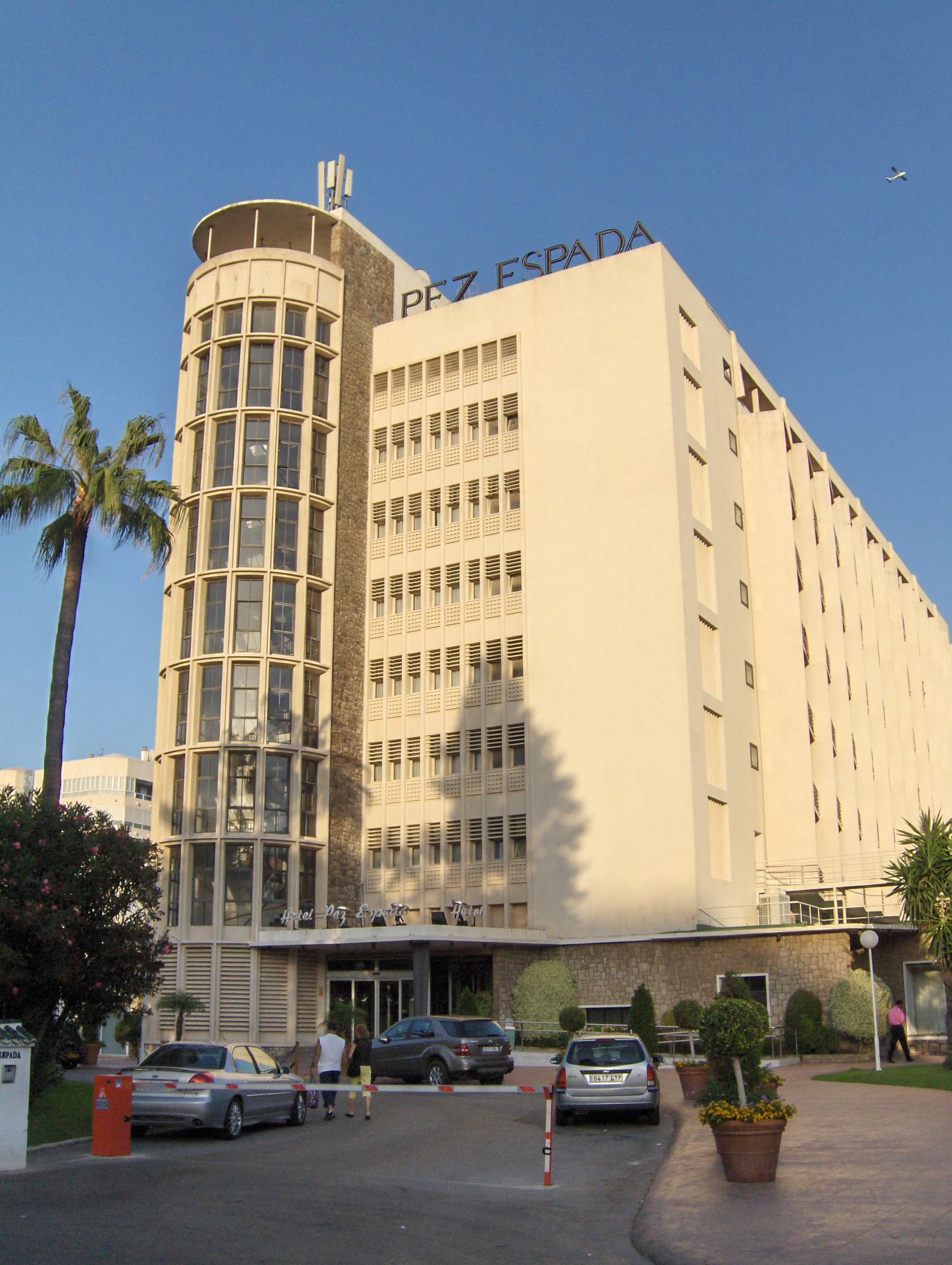 Pez Espada Hotel, Torremolinos, Spain. Built in 1959